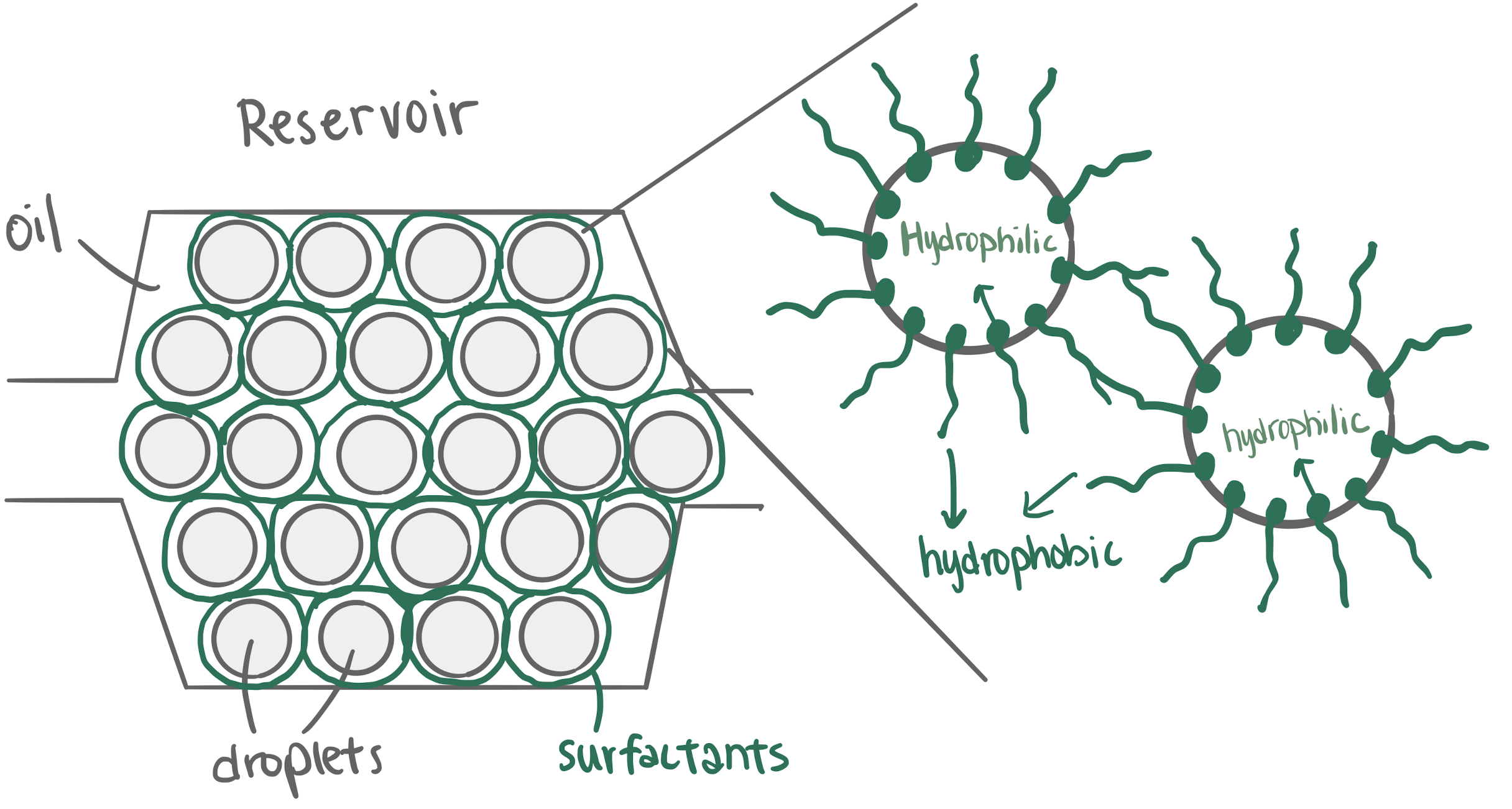 Surfactant coated droplets in a reservoir